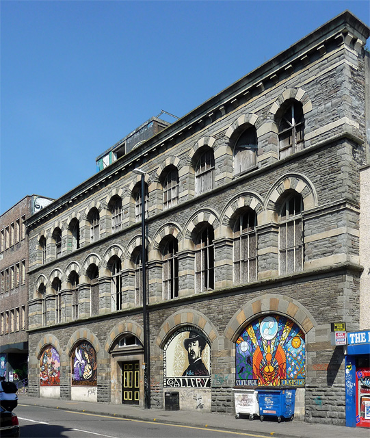 104 Stokes Croft, Bristol